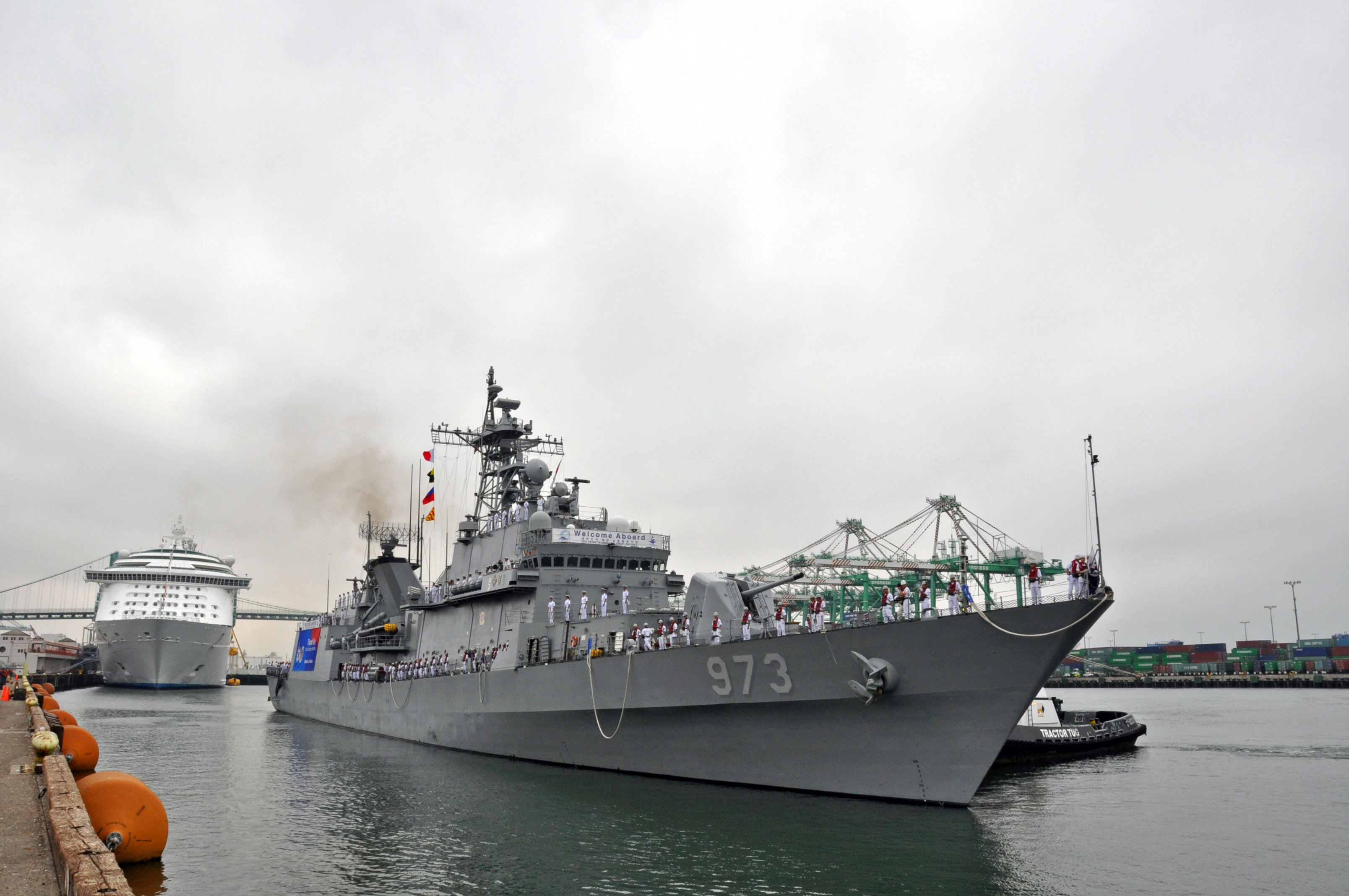 SAN PEDRO, Calif. (July 25, 2010) The Republic of Korea destroyer ROKS Yangmanchoon (DDH 973) prepares to dock at the Port of Los Angeles. Yangmanchoon is in Los Angeles conducting an annual midshipman training cruise. (U.S. Navy photo by Gregg Smith/Released)